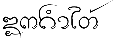 Lanna-Dok Kham Tai